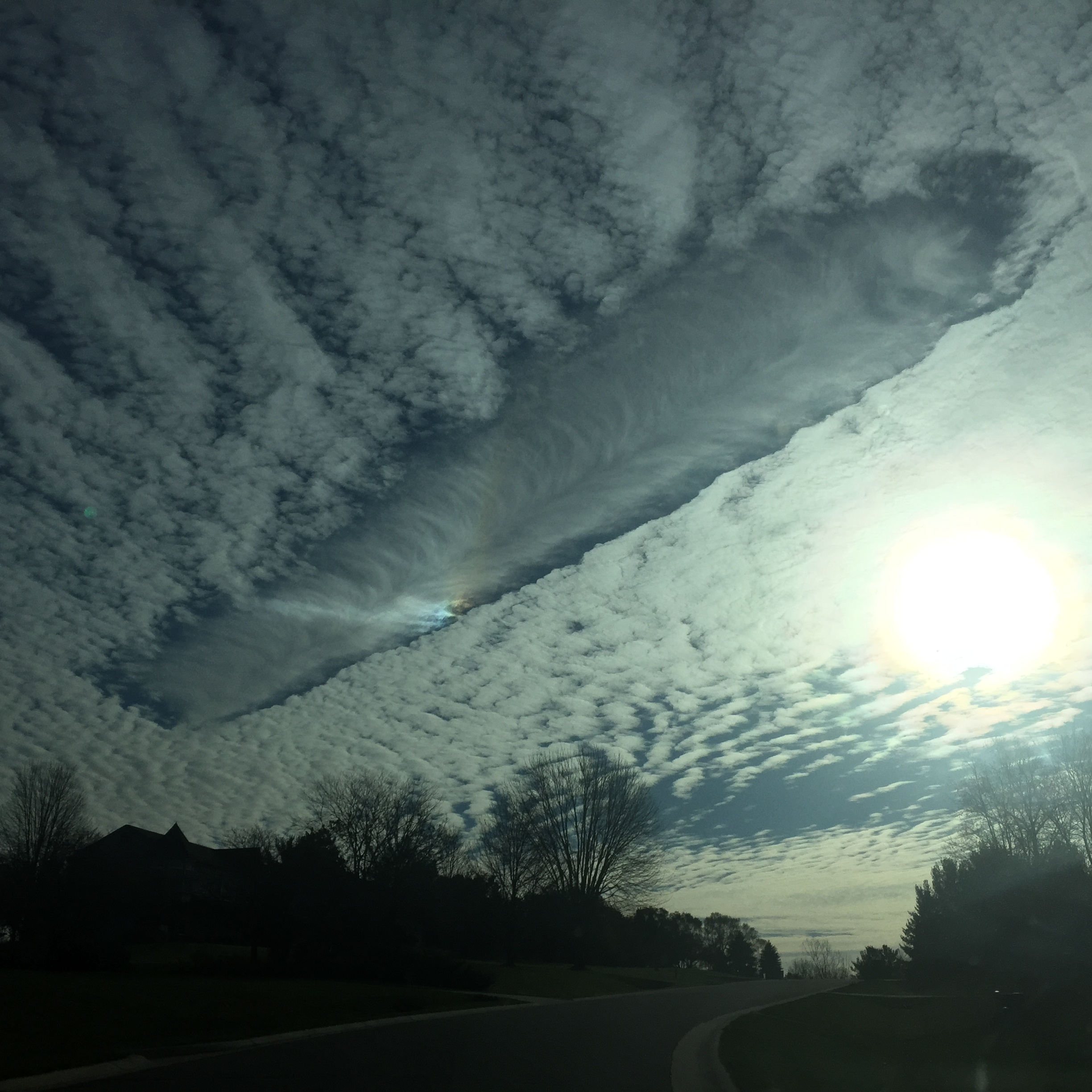 Ann Arbor Michigan November 14th, 2016 9:35 am